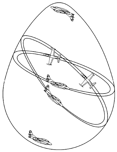 The tactical egg is an imaginary bubble that represents all possible motions of an aircraft in a dogfight, showing the effects of gravity on the aircraft's maneuvering. Pursuit curves are determined by the angle off tail (AOT). Image from United States Navy - Naval Air Training Command (NAS Corpus Christi, Texas) Flight training instruction manual. (Rev. 08-06 CNATRAP-821) 2006